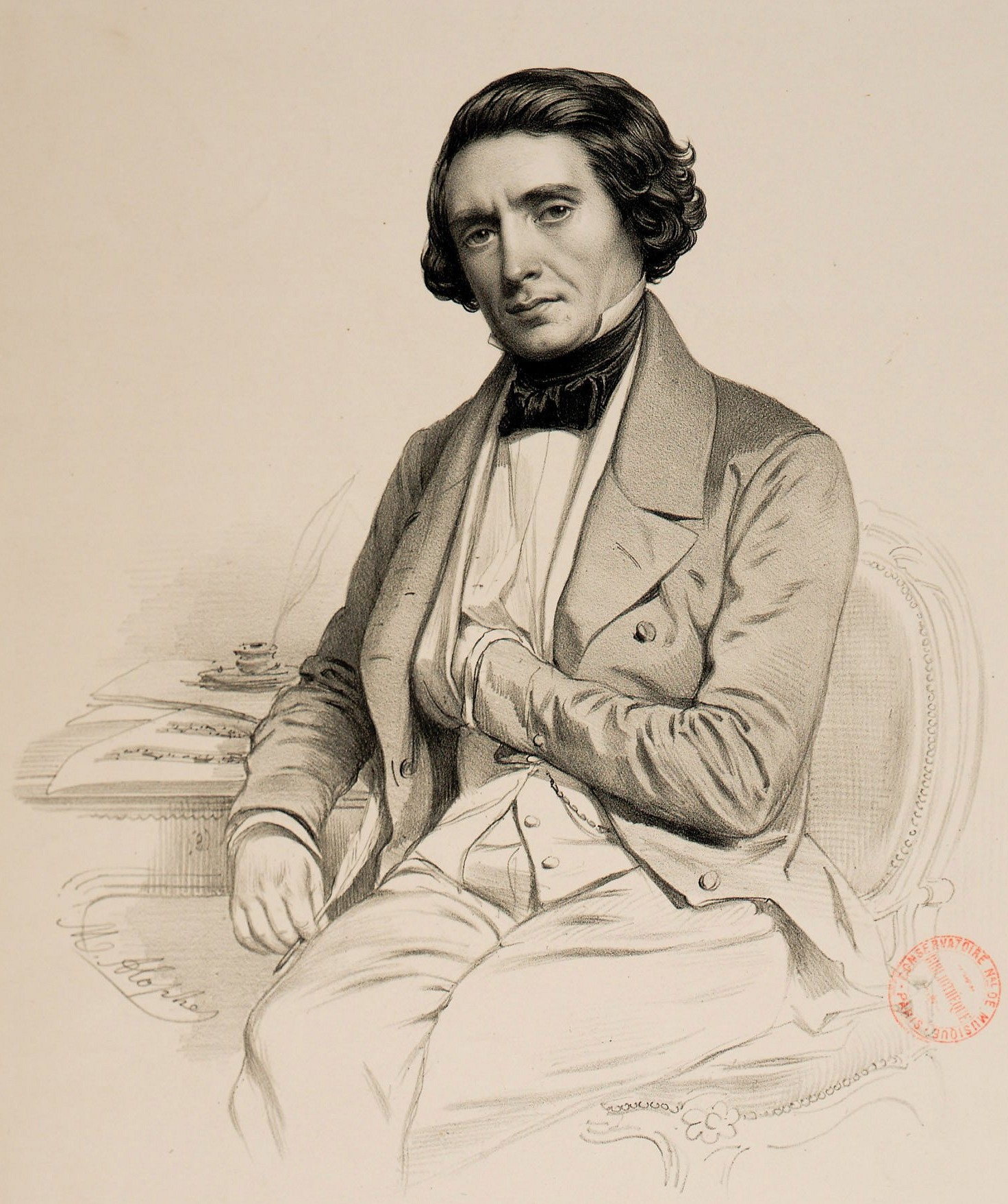 French composer Hippolyte Colet (1808-1853) portrayed as a professor of harmony at the Conservatoire royal de Paris by Marie-Alexandre Alophe (1812-1883).